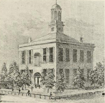 An image of the first Vigo County Courthouse in Vigo County, Indiana, taken from page 67 of the book The History of early Terre Haute from 1816 to 1840, written by Blackford Condit and published in 1900. Original caption of the image is "The first court house, 1813-1866."